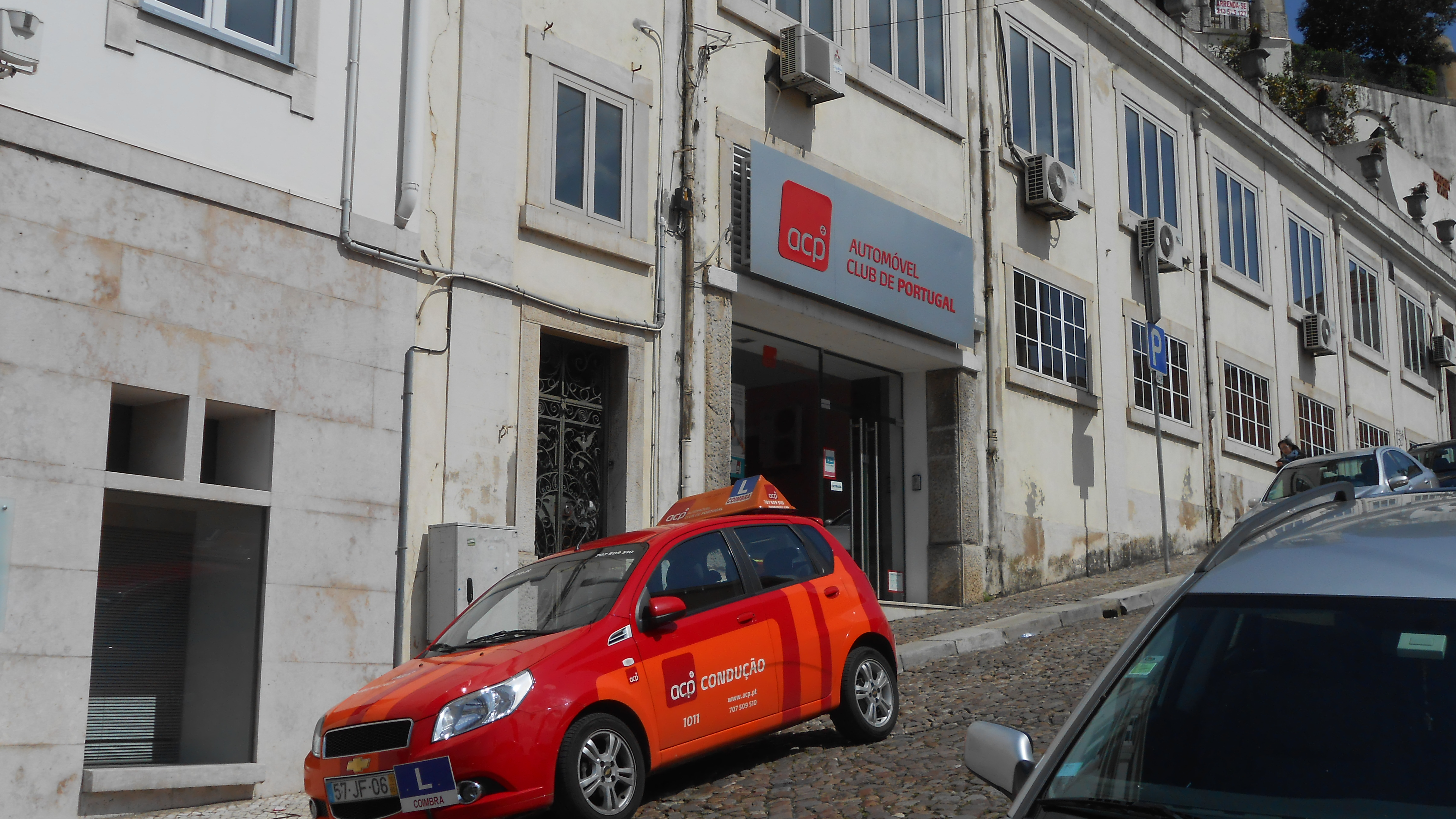 ACP-office in downtown Coimbra